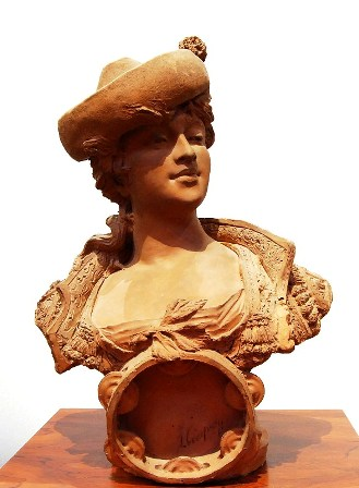 This image was provided to Wikimedia Commons by Biblioteca Museu Víctor Balaguer as part of an ongoing cooperative GLAMWIKI project with Amical Wikimedia. The artifact represented in the image is part of the permanent collection of Biblioteca Museu Víctor Balaguer. This work is free and may be used by anyone for any purpose. If you wish to use this content, you do not need to request permission as long as you follow any licensing requirements mentioned on this page.